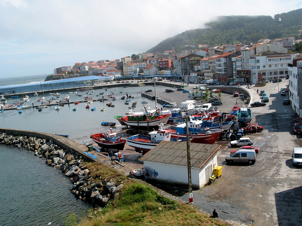 Fisterra, Galiza. Panorámica photo by ricardo / This photo is licensed under a Creative Commons license. If you use this photo within the terms of the license or make special arrangements to use the photo, please list the photo credit as "ricardo / " and link the credit to .